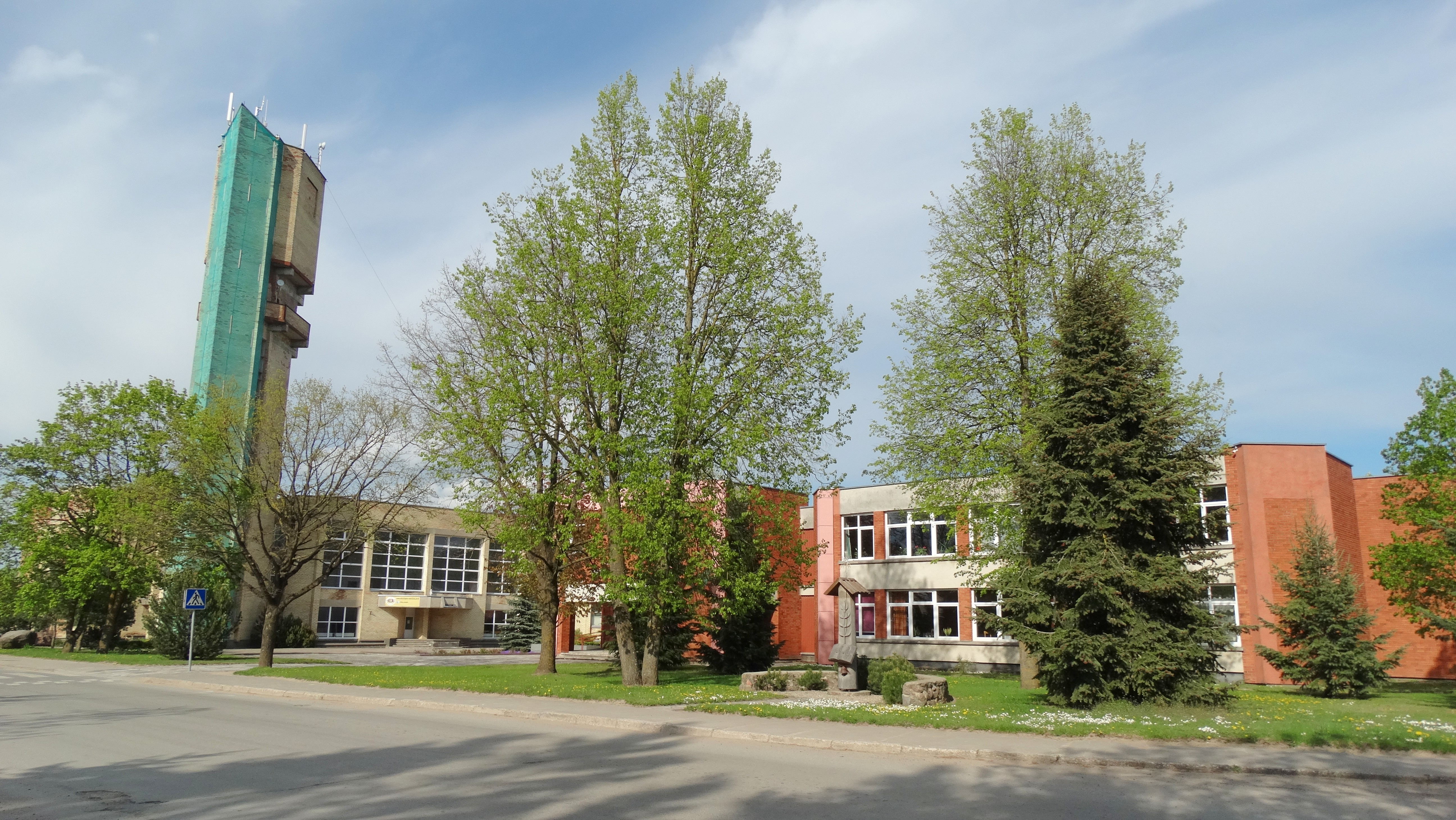 Alksniupiai, school, Radviliškis District, Lithuania